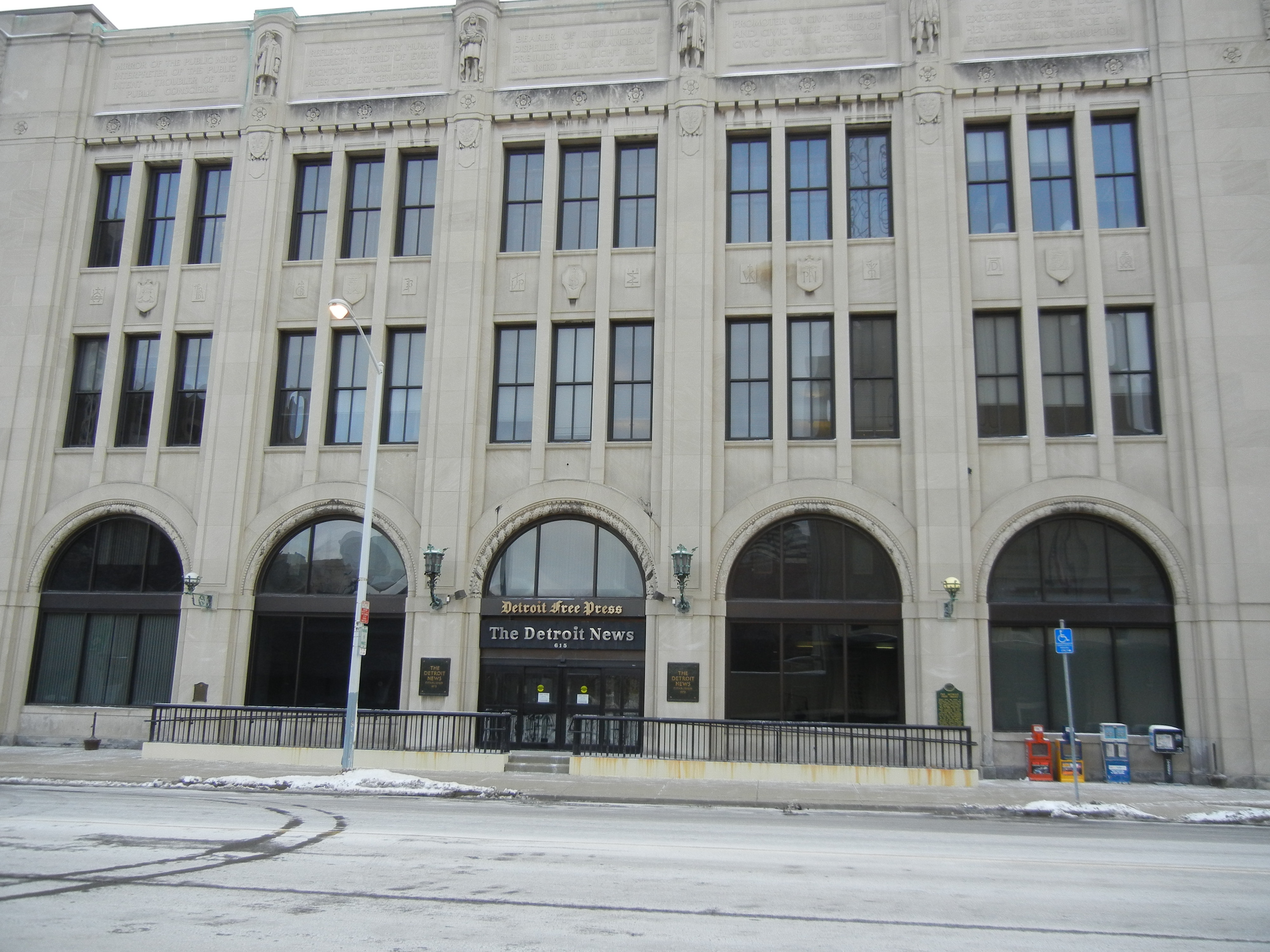 Detroit News and Free Press Building